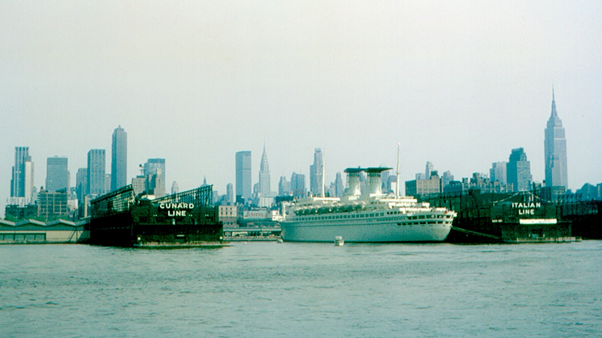 Midtown Manhattan from a Circle Line cruise boat in the Hudson River in May 1965. The Empire State Building is at the far right. The Chrysler Building is the pointed skyscraper just left of the ship. The Pan Am Building is just left of the Chrysler Building. In the foreground the CUNARD LINE and the ITALIAN LINE piers (Chelsea Piers)